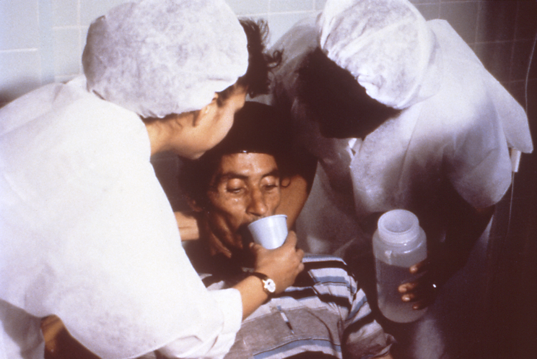 (From source) This cholera patient is drinking oral rehydration solution (ORS) in order to counteract his cholera-induced dehydration. The cholera patient should be encouraged to drink the Oral Rehydration Solution (ORS). Even patients who are vomiting can often be treated orally if they take small frequent sips. Their vomiting will subside when their acidosis is corrected.